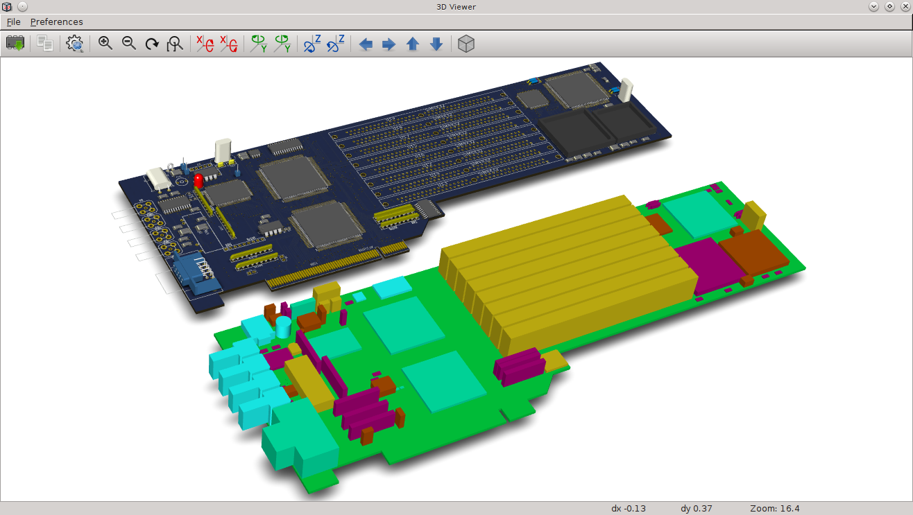 KiCad 3D Viewer showing both VRML and IDF models of a demo board (video project). VRML is the regular 3D representation, IDF export is an MCAD-friendly feature under development.